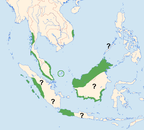 Distribution of Edible-nest Swiftet (Aerodramus maximus). Resident range: dark green Data Source: Phil Chantler, Gerald Driessens: A Guide to the Swifts and Tree Swifts of the World; Pica Press; Mountfield 2000; ISBN 1-873403-83-6